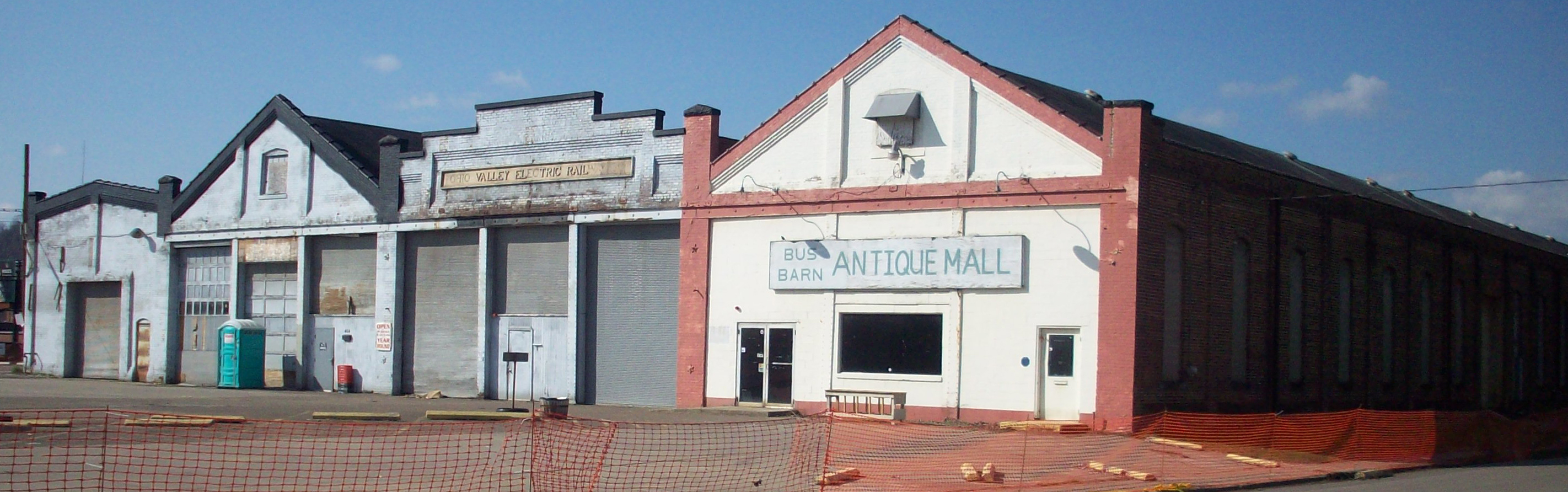 Photo of the Bus Barn building of the Ohio Valley Electric Railway located in the Central City neighborhood of Huntington, West Virginia. The photo was taken from in front of a nearby auto parts store. The building has since been demolished to make way for a Sheetz convenience store.